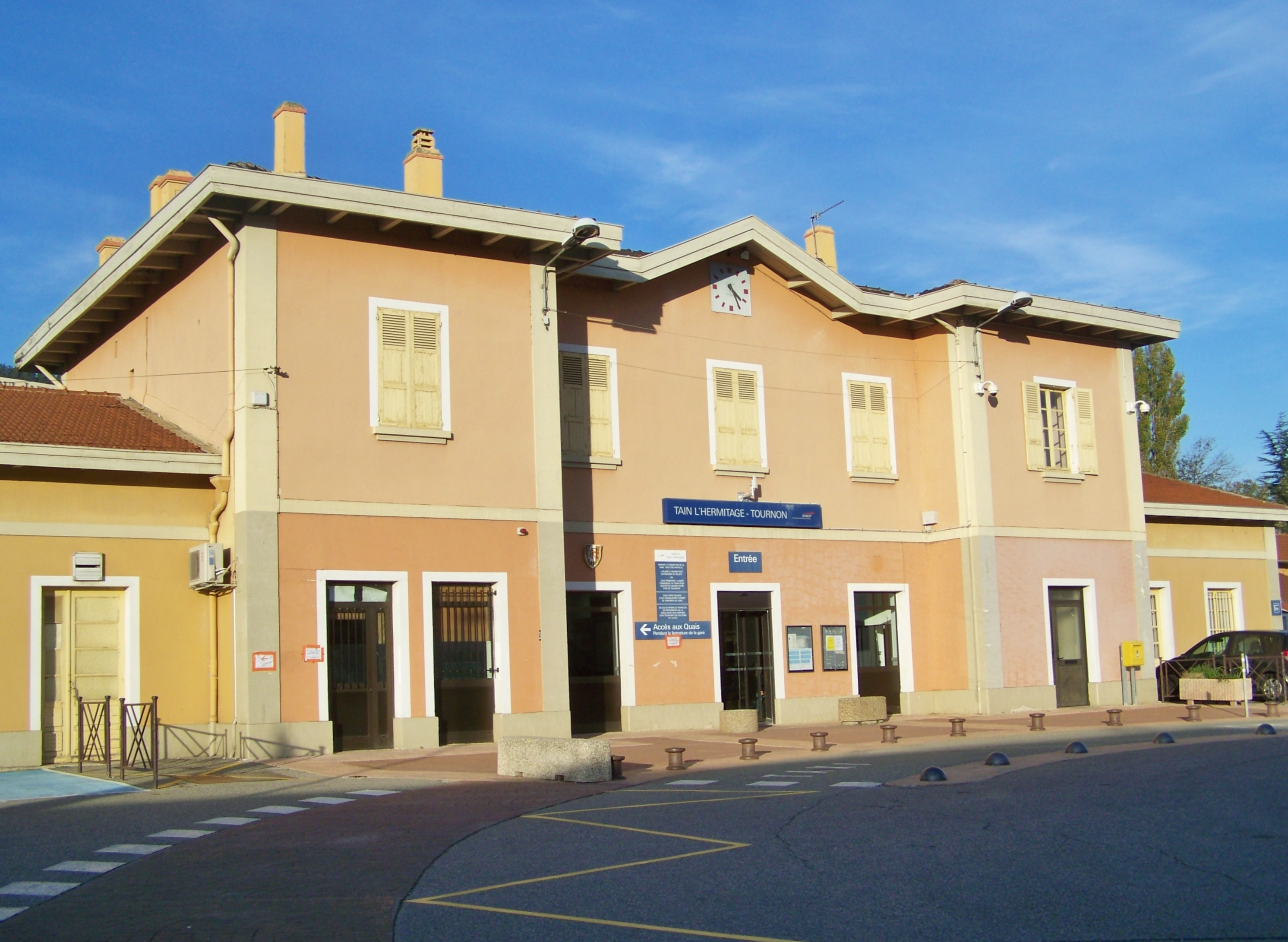 Sight of the building of the Tain l'Hermitage - Tournon railway station, in Drôme, France.